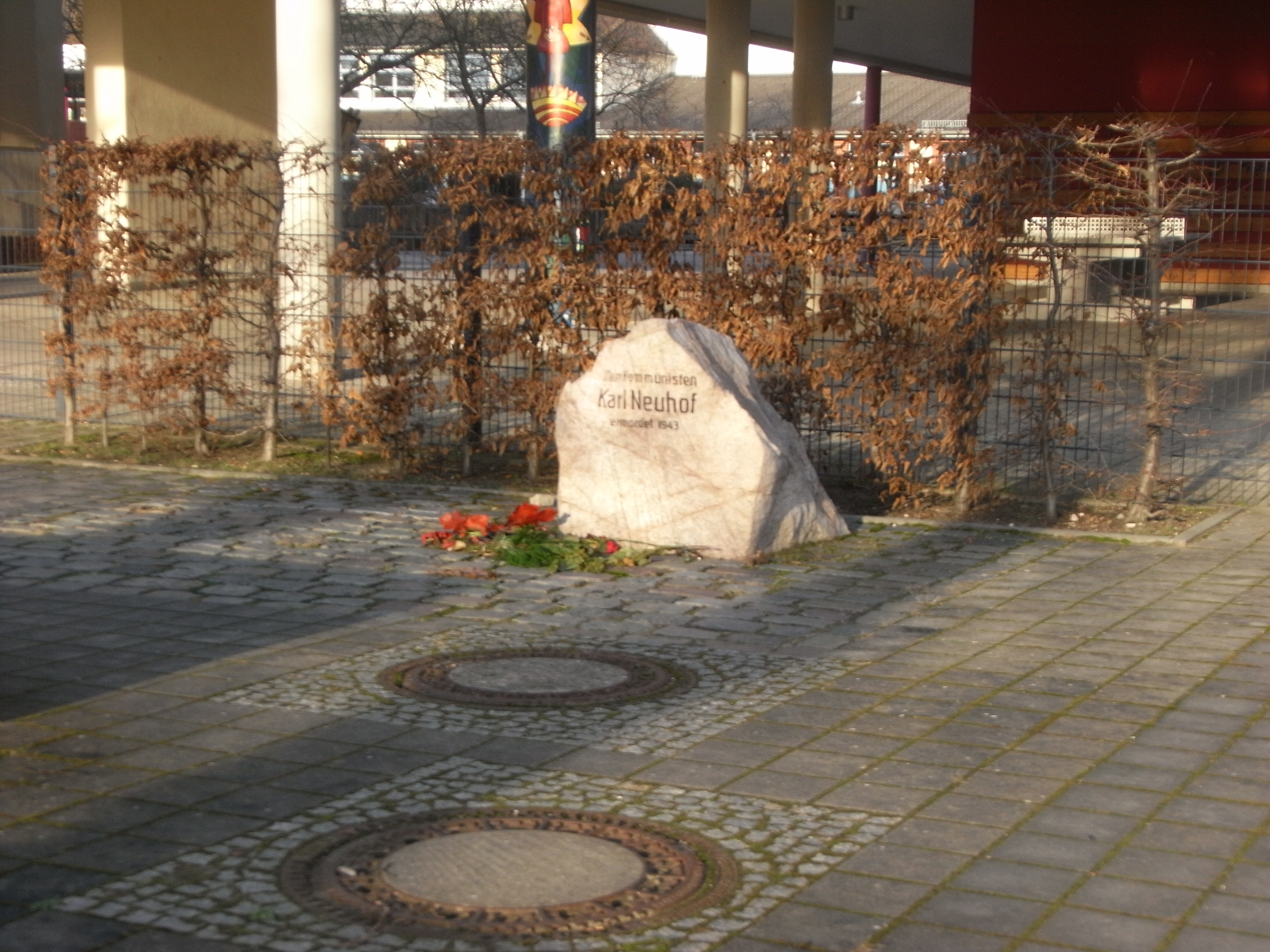 Memorial Stone for Karl Neuhof in Glienicke/Nordbahn, Oberhavel district, Brandenburg state, Germany